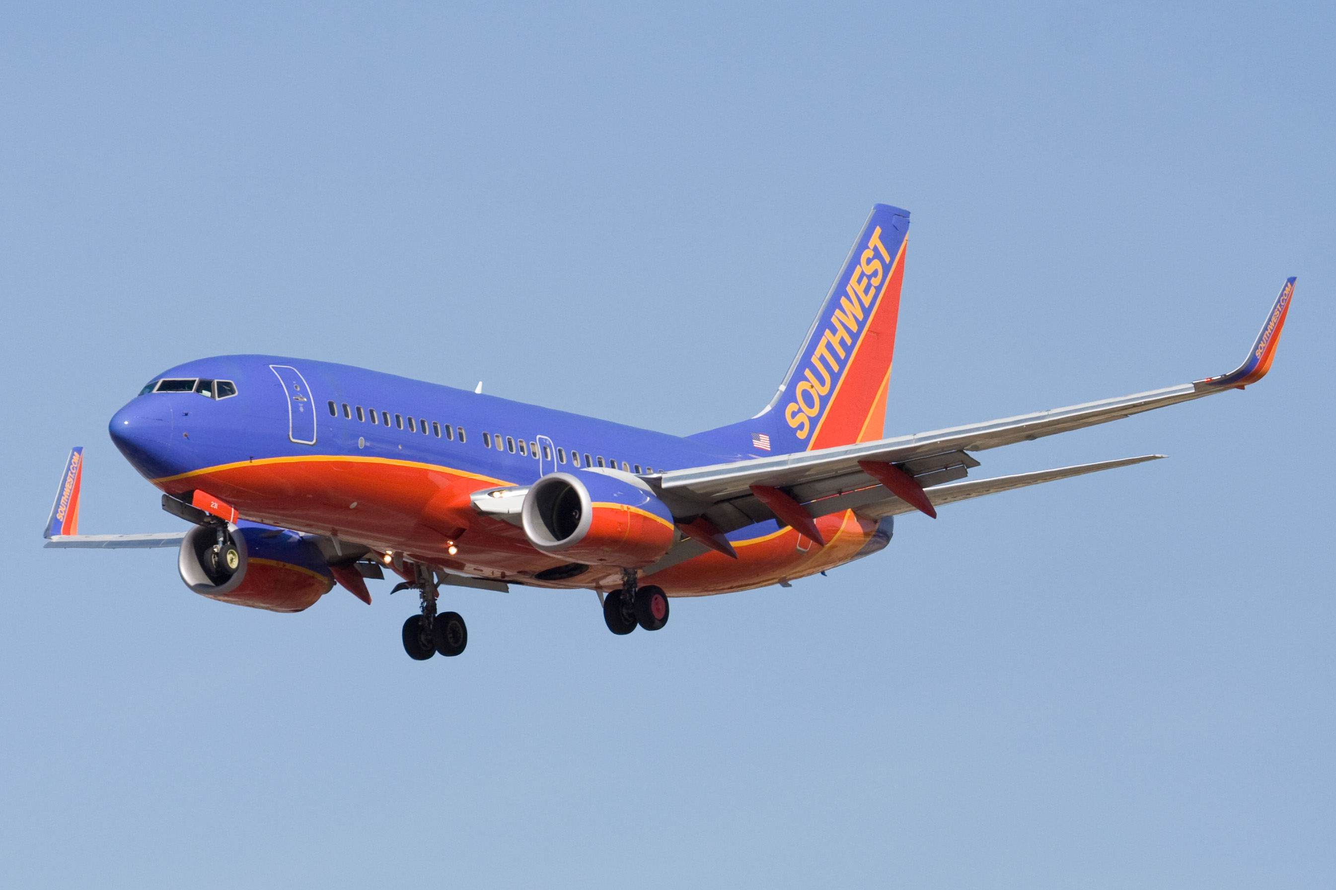 A Southwest Airlines Boeing 737–700 landing at San Jose International Airport, shown in the company's Canyon Blue livery. (700 Pale Blue)